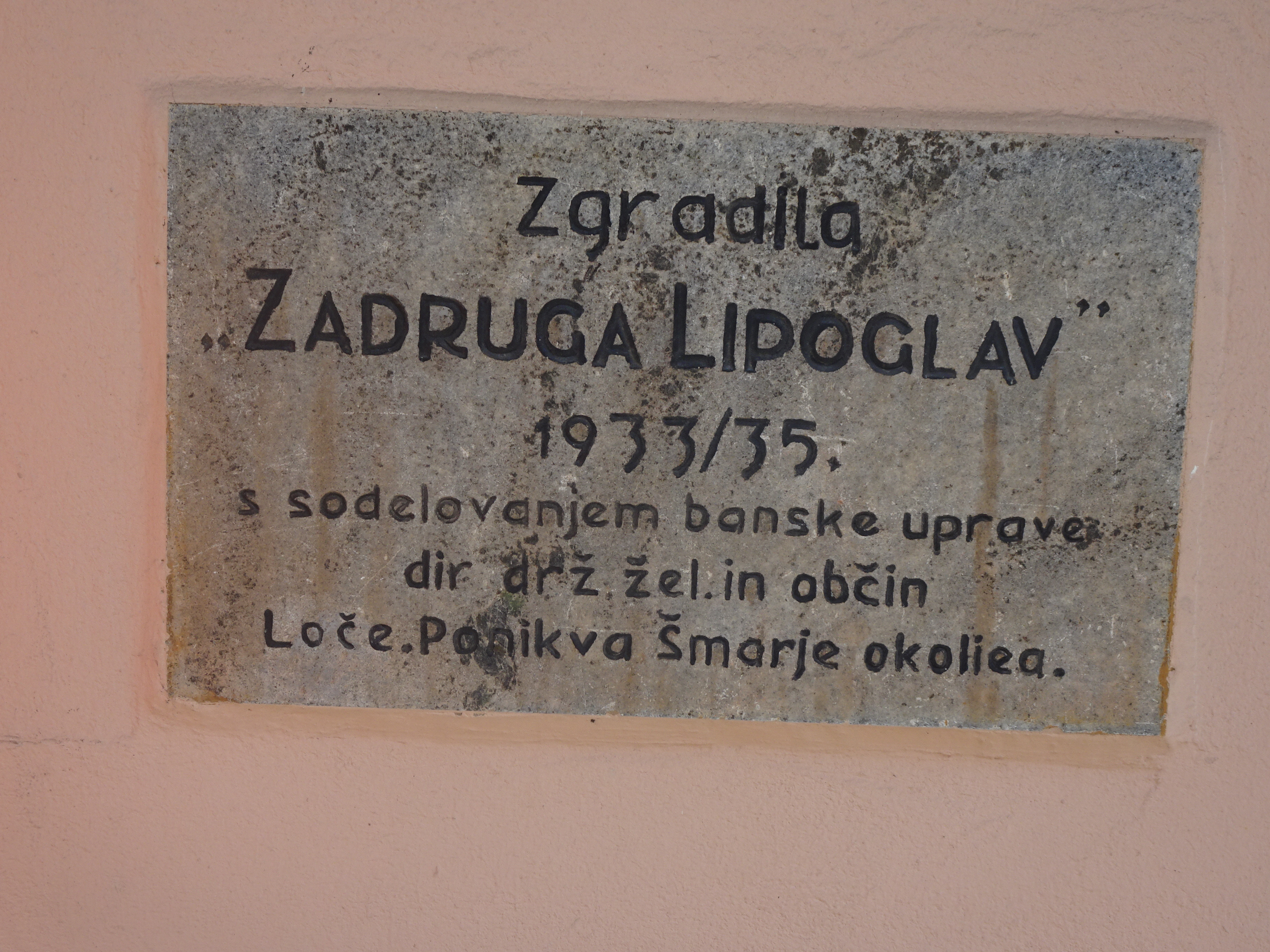 Dolga Gora train station inscription, Slovenia